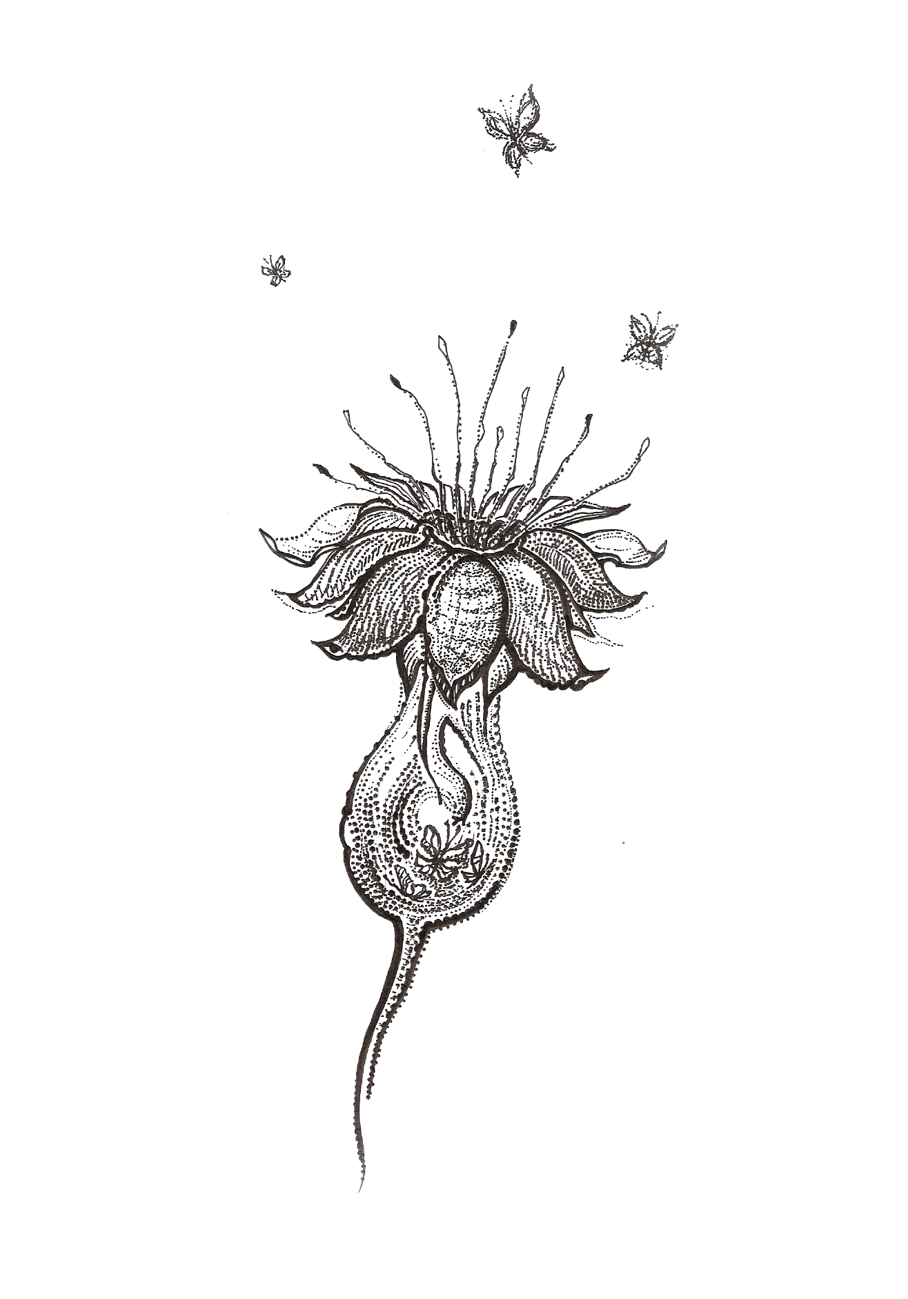 Carnivorous flower using stippling technique